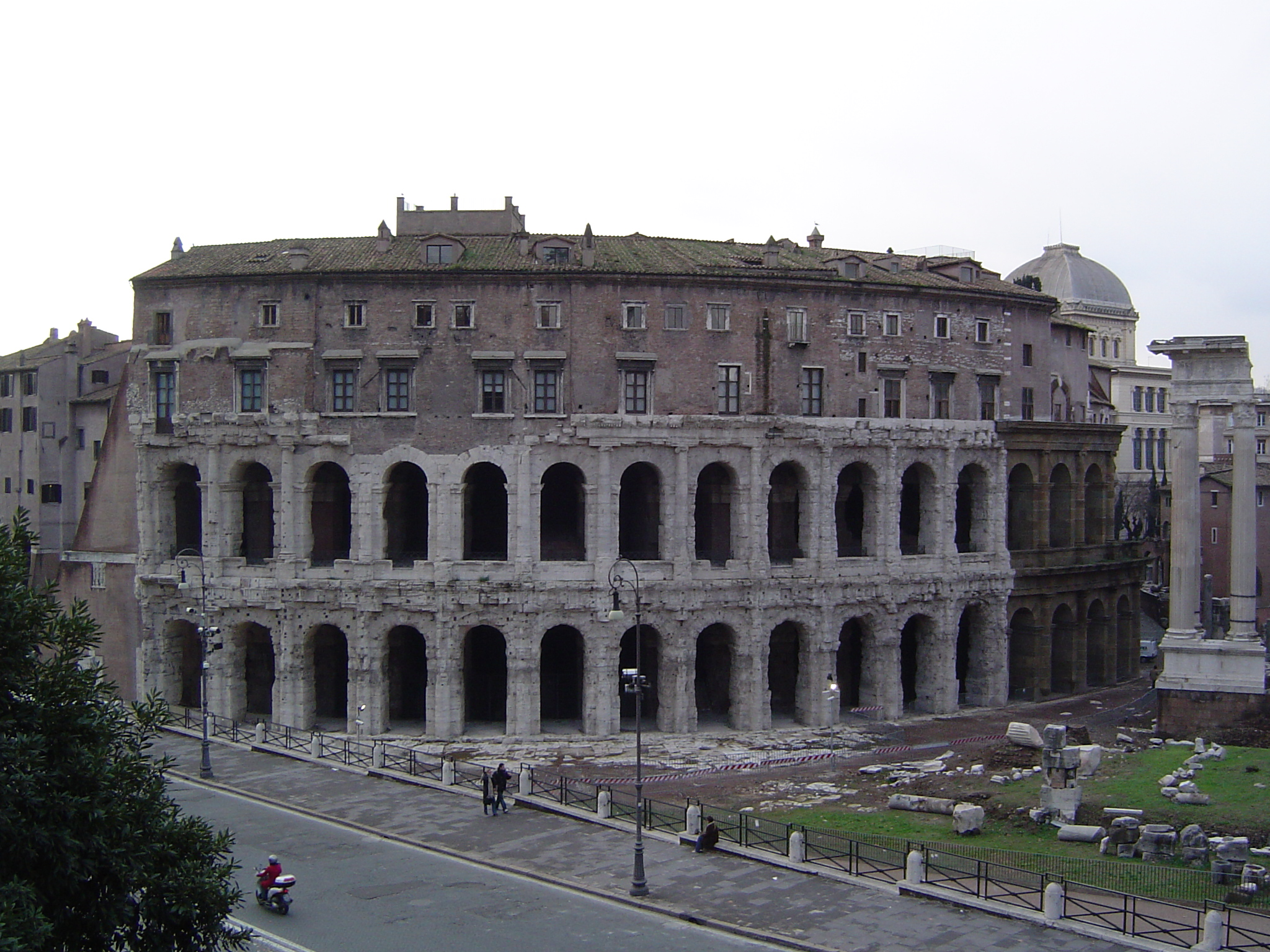 Theatre of Marcellus, Rome - Italy Made by Joris van Rooden, the Netherlands on 06-01-2006